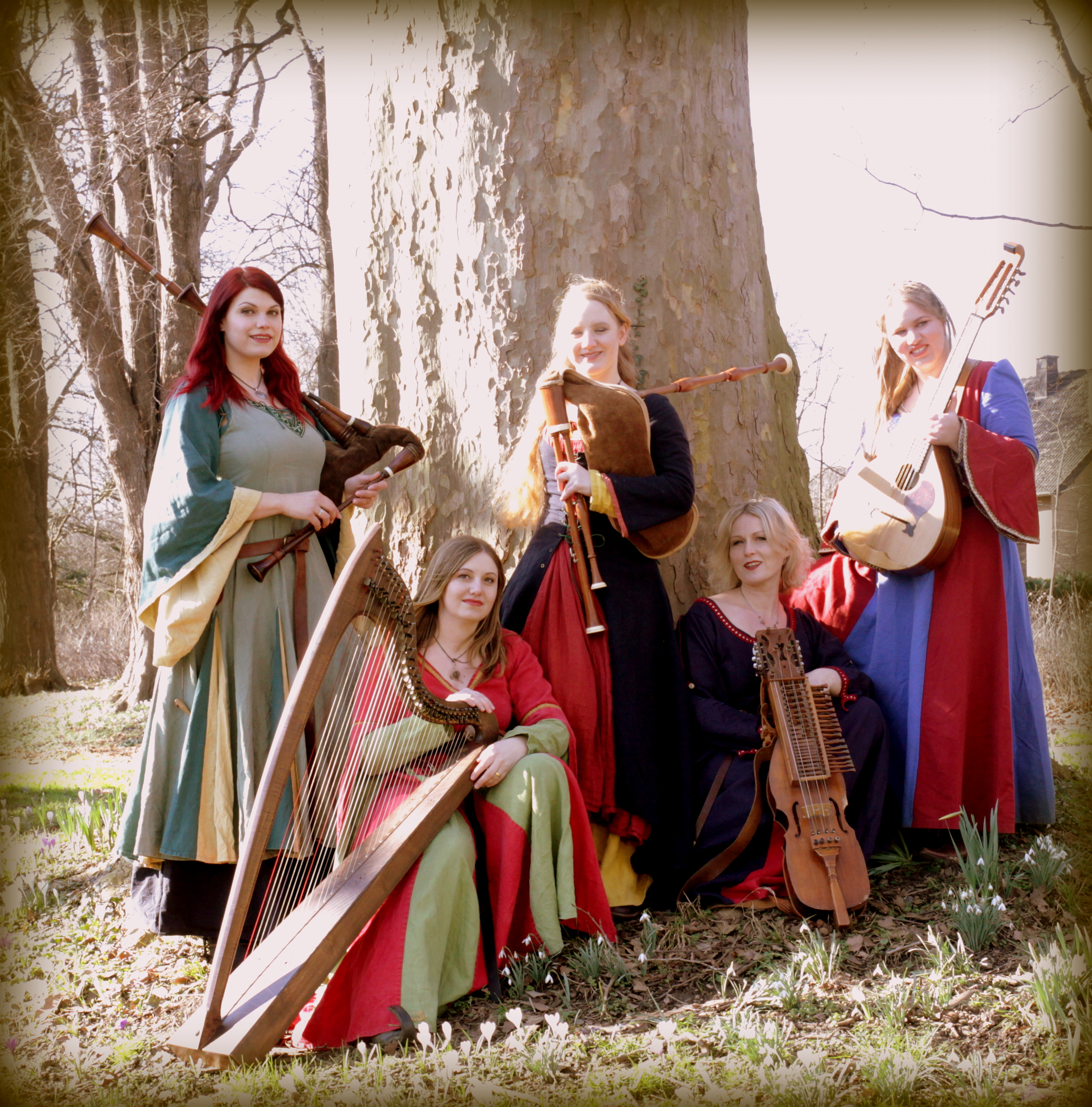 Die Irrlichter band photo for press purposes, 2016 lineup. Standing (left to right): Annika Thoma, Daniela Heiderich, Anna Karin; sitting (left to right): Brigitta Jaroschek, Stephanie Keup-Büser